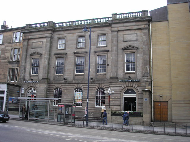 Edinburgh Filmhouse The Edinburgh Filmhouse – formerly Lothian Road Church. Apparently the building cannot be demolished since a former minister (deceased) is interred in the walls of the building. This is probably an ecclesiastical myth – or if true it might have been a failed attempt to frustrate the Unions and Readjustment Committee. Lothian Road Church was originally a congregation of the United Succession Church, and was officially opened on 29th May 1831. The building cost £3,350 and had seating for 1,300 people. The congregation became members of the United Presbyterian Church, the United Free Church, and then the Church of Scotland following the Union of 1929.